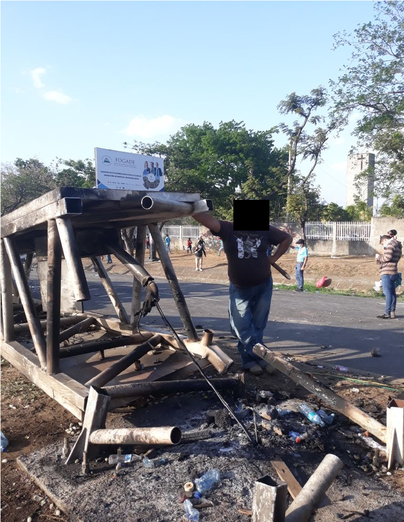 A protester posing next to the cremated remains of a "tree of life"; These monuments are considered as symbols of the dictatorship by opponents of the government.